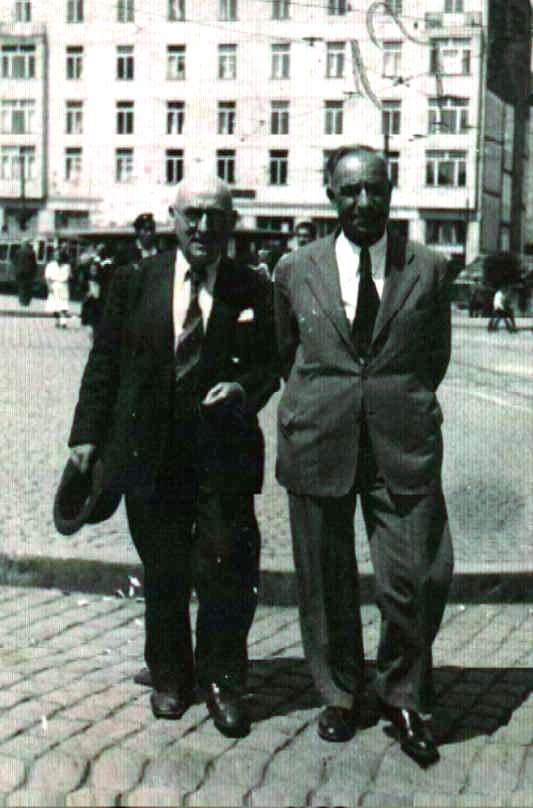 Bulgarian photo - Elin Pelin and Piligrim